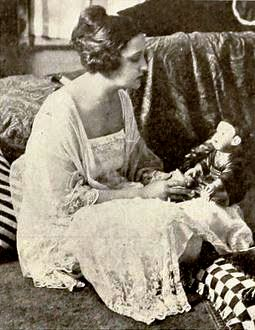 Still of Rosemary Theby from the American film serial The Mystery of 13 (1919), page 1445 of the December 16, 1919 Motion Picture News.